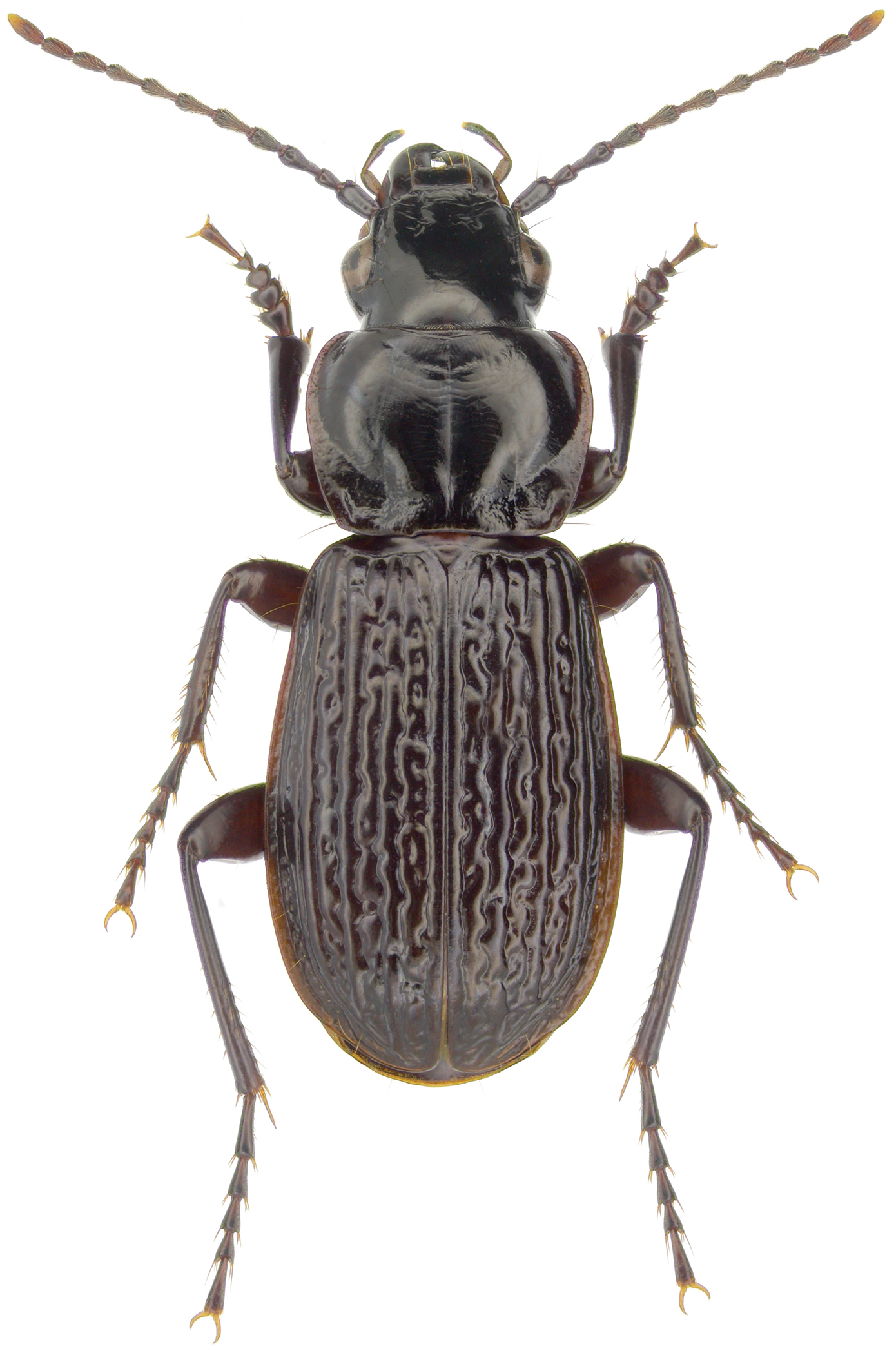 Pterostichus punctatissimus Randall. This species is one of the most attractive Pterostichus in North America. The sculpture of the elytra is irregular giving the impression to the naked eye that the striae bear large punctures. For that reason Randall named the species punctatissimus meaning the most punctured. Although not as common as Pterostichus adstrictus, this species is also a characteristic element of boreal forests in the Nearctic Region.